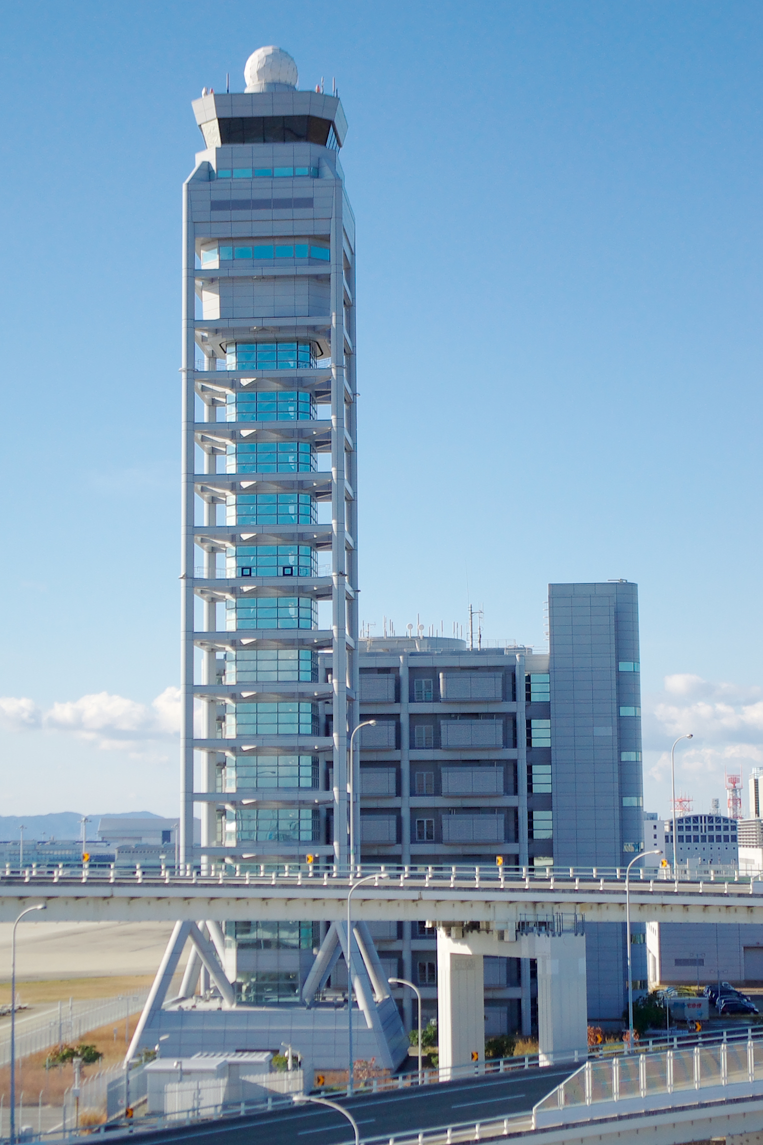 Photograph of Kansai International Airport Office Building and Control Tower, Osaka Civil Aviation Bureau, Ministry of Land, Infrastructure, Transport and Tourism, built in the center of Kansai International Airport first island, Tajiri, Osaka Prefecture, Japan.